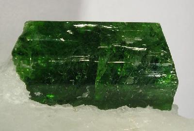 Pargasite Locality: Ganesh, Hunza Valley, Gilgit District, Northern Areas, Pakistan (Locality at ) Size: thumbnail, 2 x 1.8 x 1.7 cm Pargasite Superb single crystal of of Pargasite, 1.5 cm long, sitting beautifully on a matrix of white marble. The deep green color is fantastic, as it the luster and well-defined crystal form. Gram for gram, this doubly-terminated crystal is by far the best Pargasite I have ever come across for its sharpness and electric color.